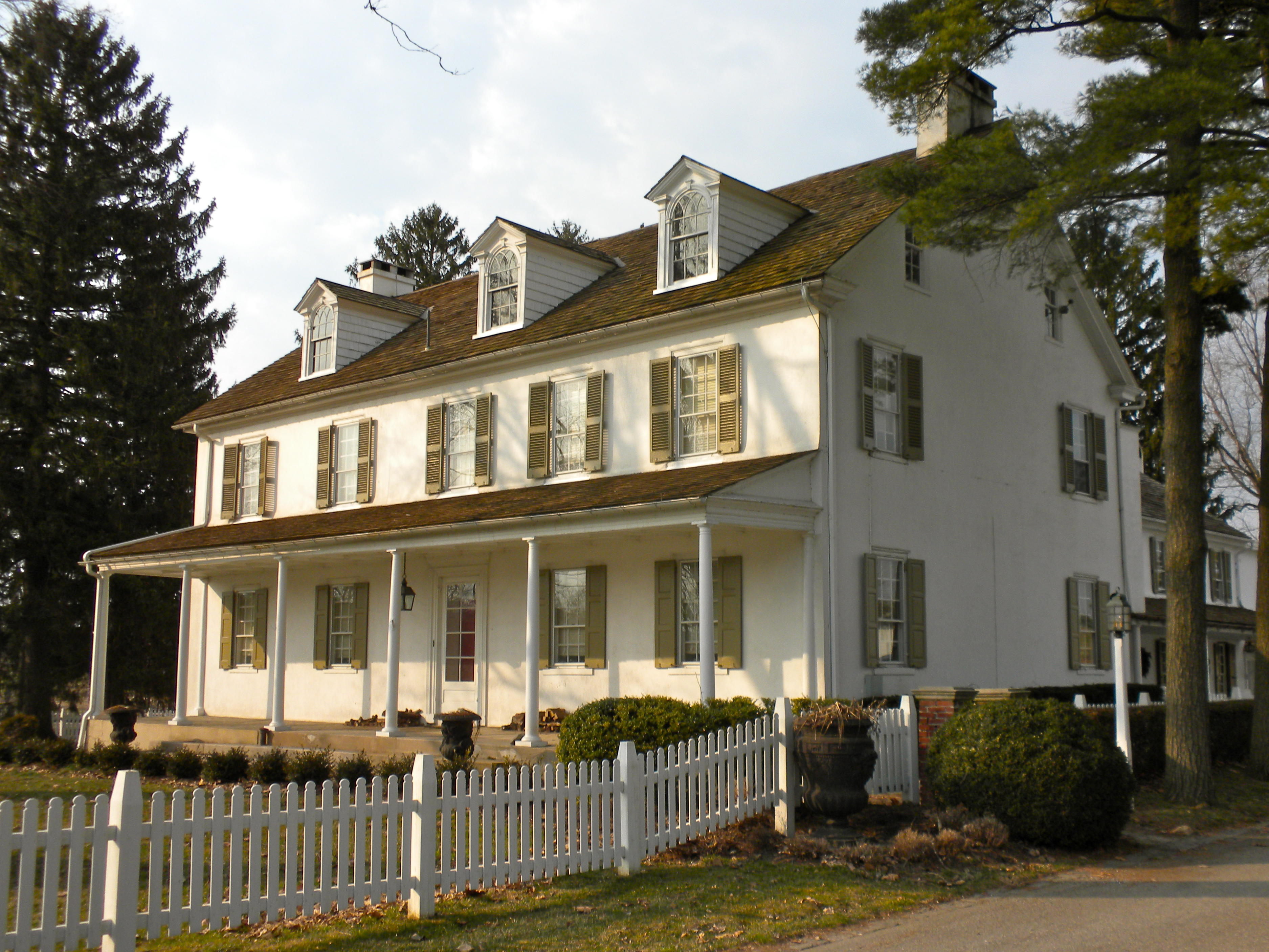 White Chimneys - a house on the NRHP since April 1, 1975. 1 mile (1.6 km) northwest of Gap, PA on U.S. Route 30, In Lancaster, PA